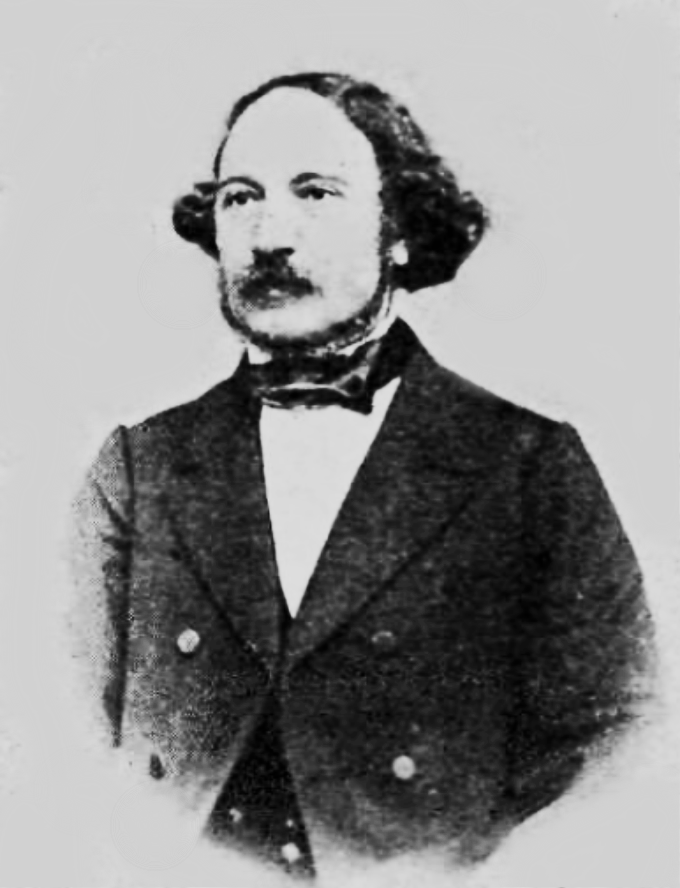 Moldavian/Romanian physician and political figure Anastasie Fătu.